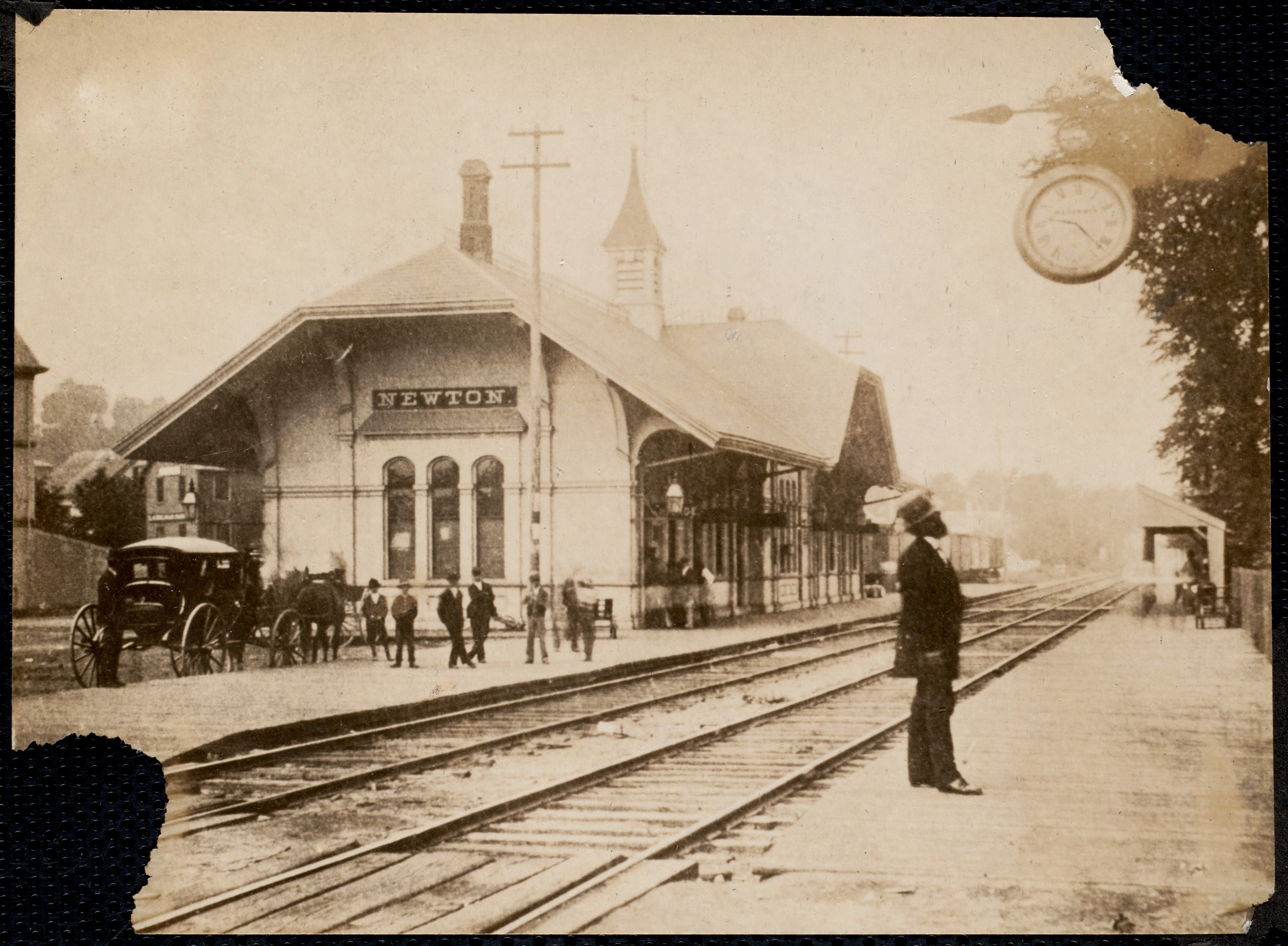 Photo of Newton (Newton Corner) station, taken before the Richardsonian Romanesque depot was built